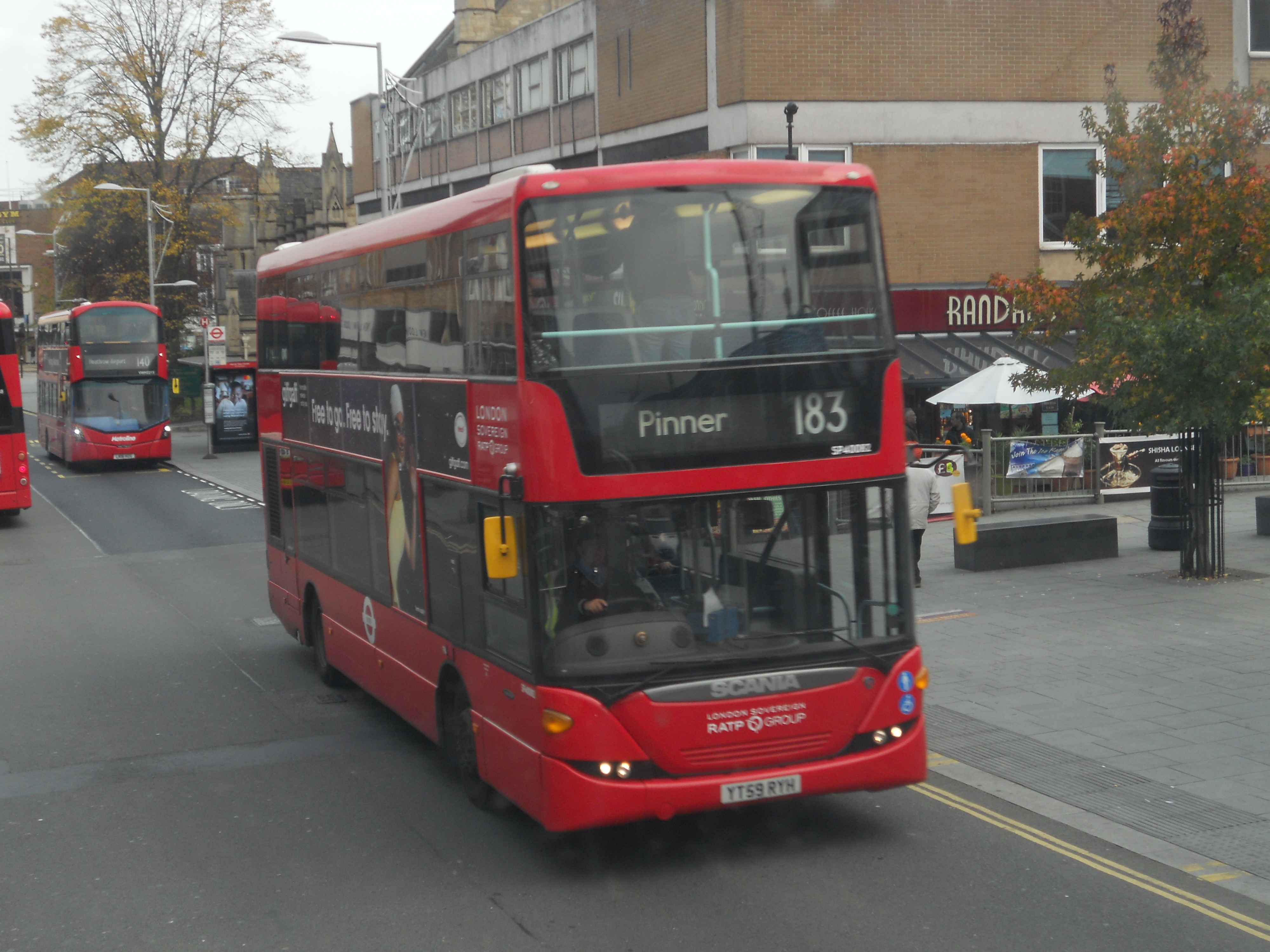 London Sovereign Scania OmniCity on route 183 in October 2017